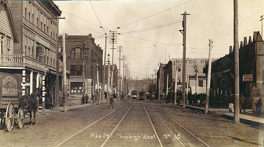 Caption on image: "Pike Street looking east" The Rochester (116 1/2 Pike) and Queen City Bakery wagon at left; Hotel Snoqualmie (Pike SW cor. 3rd.) at right; Streetcars of the Seattle Consolidated Street Railway visible on Pike St. Subjects (LCTGM): Streets--Washington (State)--Seattle; Business districts--Washington (State)--Seattle; Hotels--Washington (State)--Seattle; Street railroads--Washington (State)--Seattle; Carts & wagons--Washington (State)--Seattle Subjects (LCSH): Rochester (Seattle, Wash.); Hotel Snoqualmie (Seattle, Wash.)